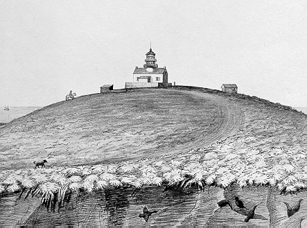 Public Domain statement here; 1856 Point Conception Lighthouse